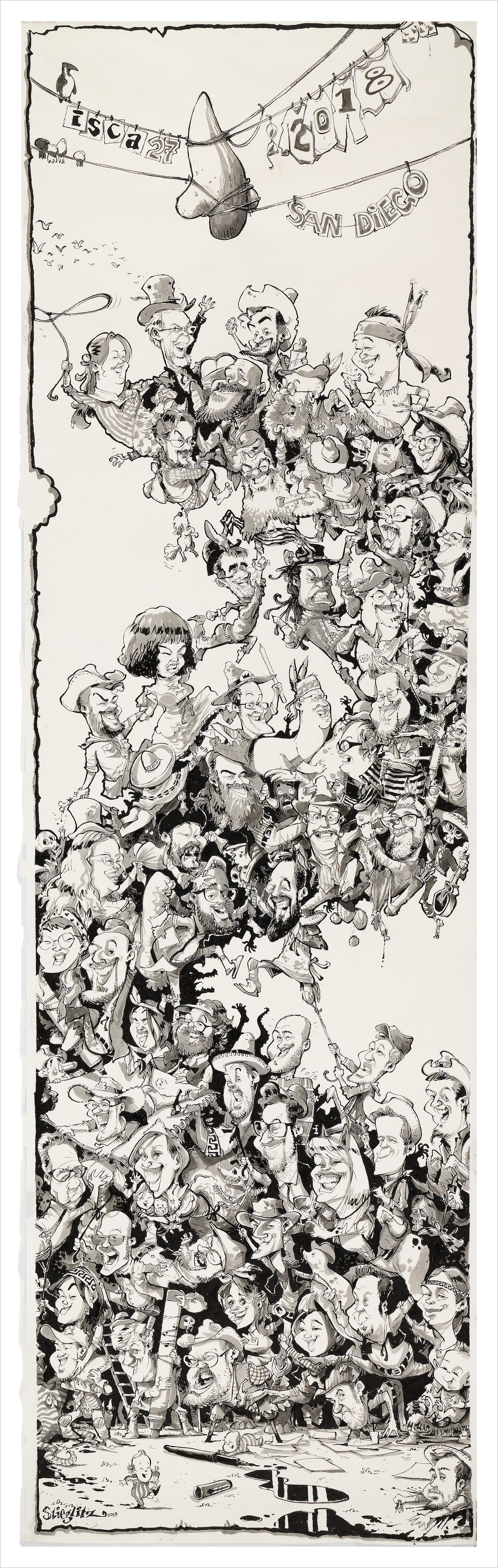 "the Golden Nosey rush" - panorama caricature by Daniel Stieglitz, drawn at the ISCA convention 2018 in San Diego.